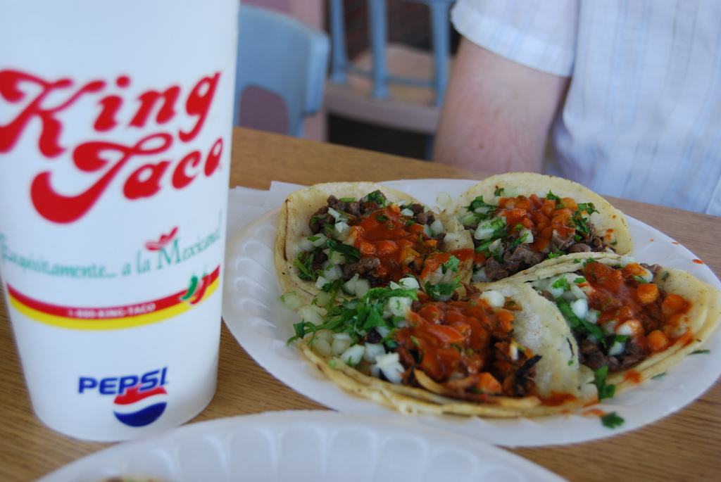 Grilled steak tacos and horchata as served in King Taco in East Los Angeles